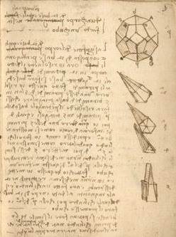 Folio 7 of the first book of the Codex Forster, a collection of Leonardo da Vinci's manuscripts. Depicted are studies of Euclidean geometry. The Codex Forster is held by the Victoria and Albert Museum.